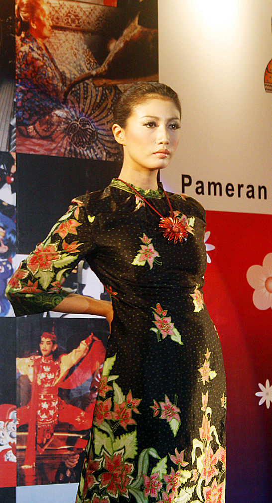 Batik dress. Batik fashion show displays the application of Indonesian traditional batik fabrics into modern fashion. Indonesia-Japan Friendship Festival 2008.